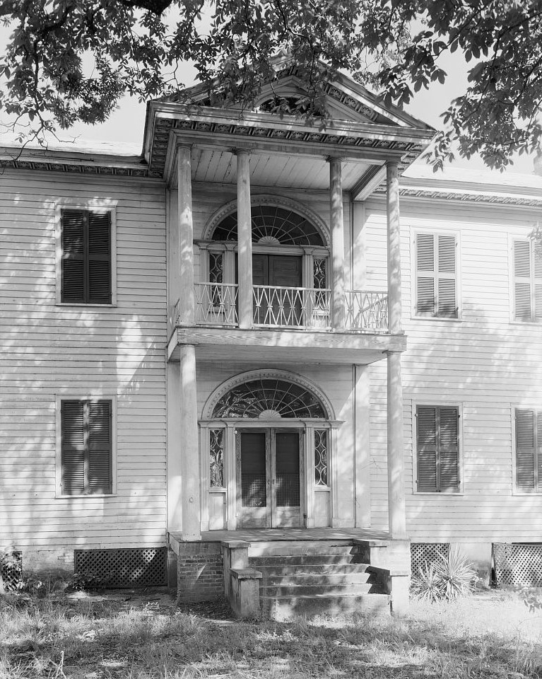 Riverdale Plantation, Selma vic., Dallas County, Alabama. From the Library of Congress' Carnegie Survey of the Architecture of the South.